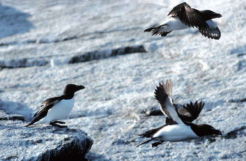 Razorbill or Alca torda, image taken at Roest, Lofoten, Norway.